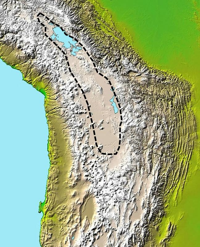 Approximate extent of the sedimentary basin the Altiplano. Do not confuse with hydrological basins. The image is a modification of the image "Nasa_anden_altiplano.jpg", which is in the public domain